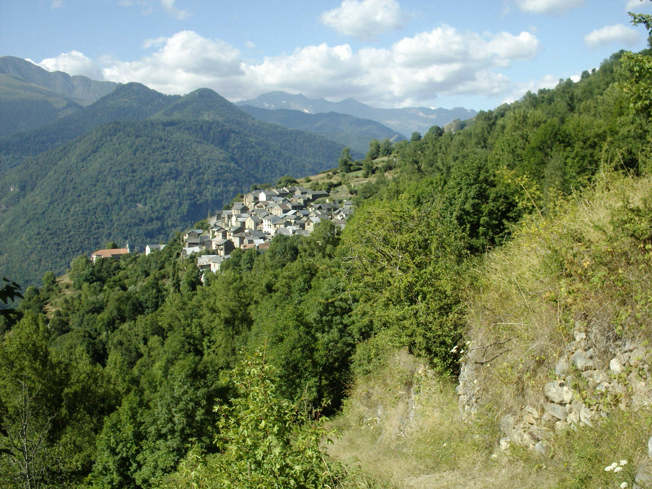 Lapege, France